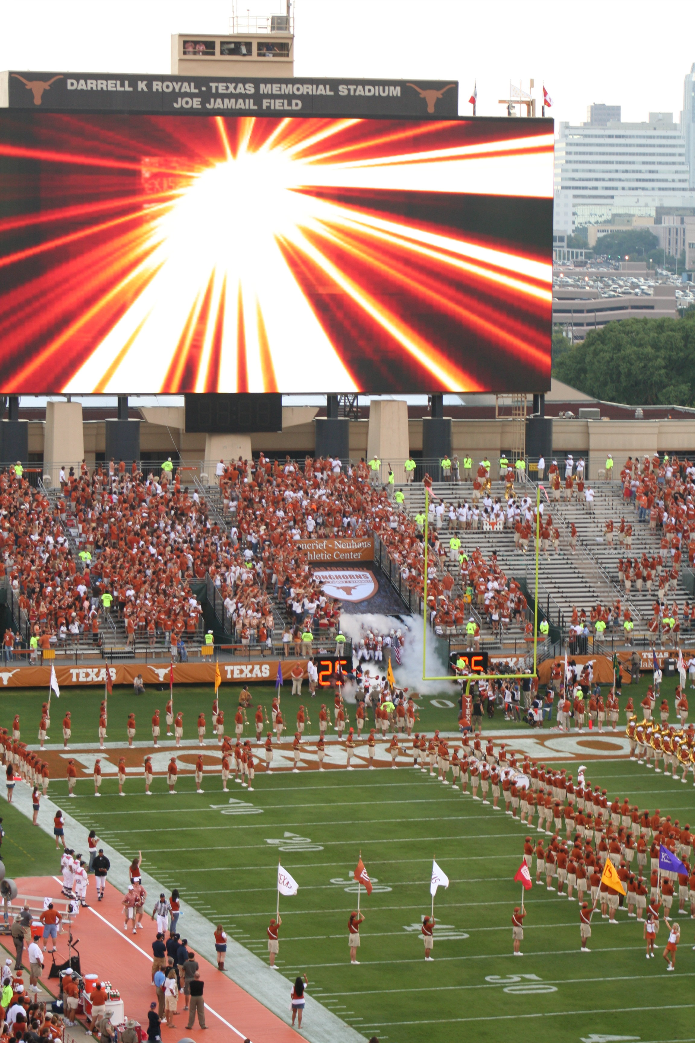 2008 Texas Longhorns football team enters the field on opening day